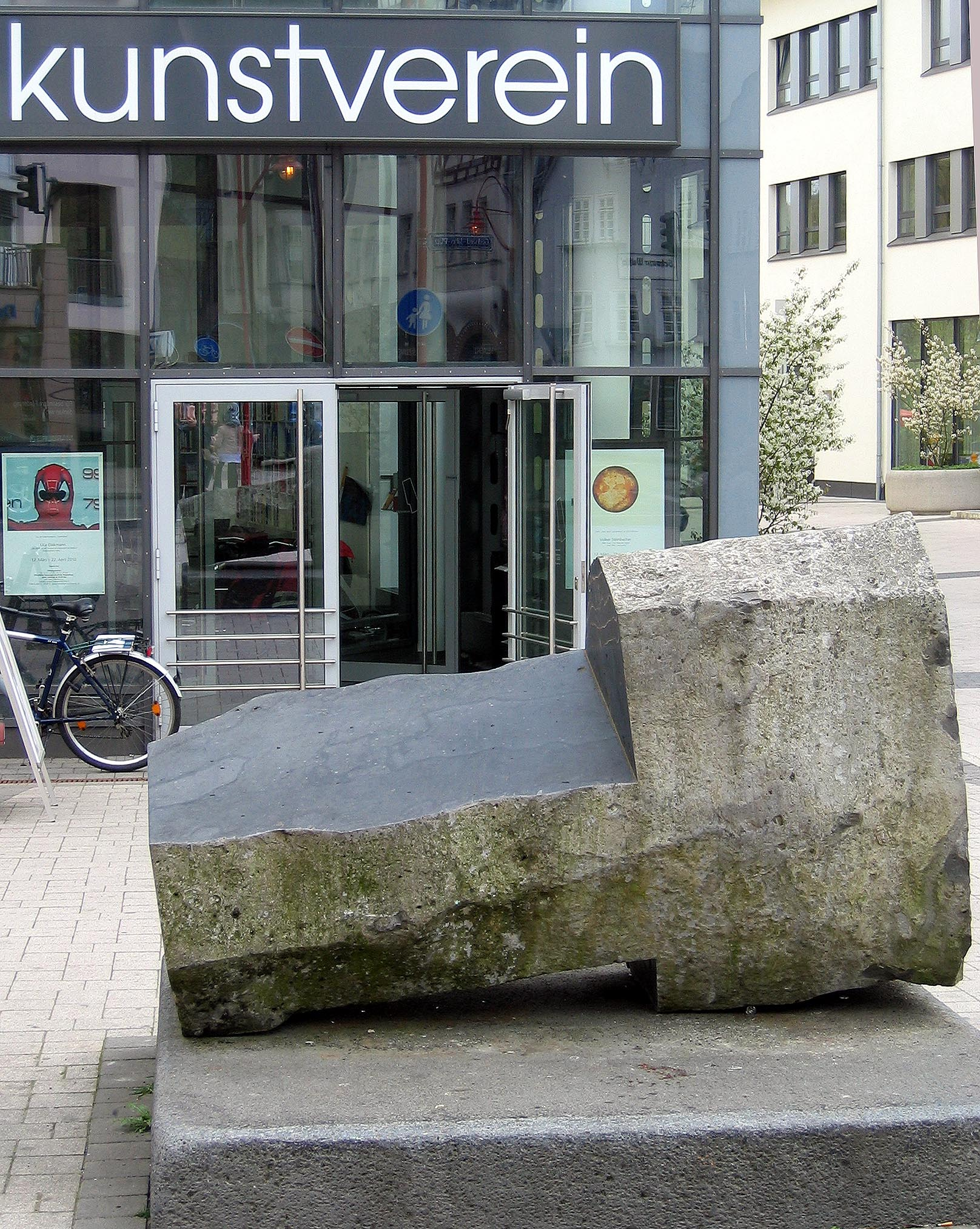 art-club Marburg, entrance with a sculpture in front